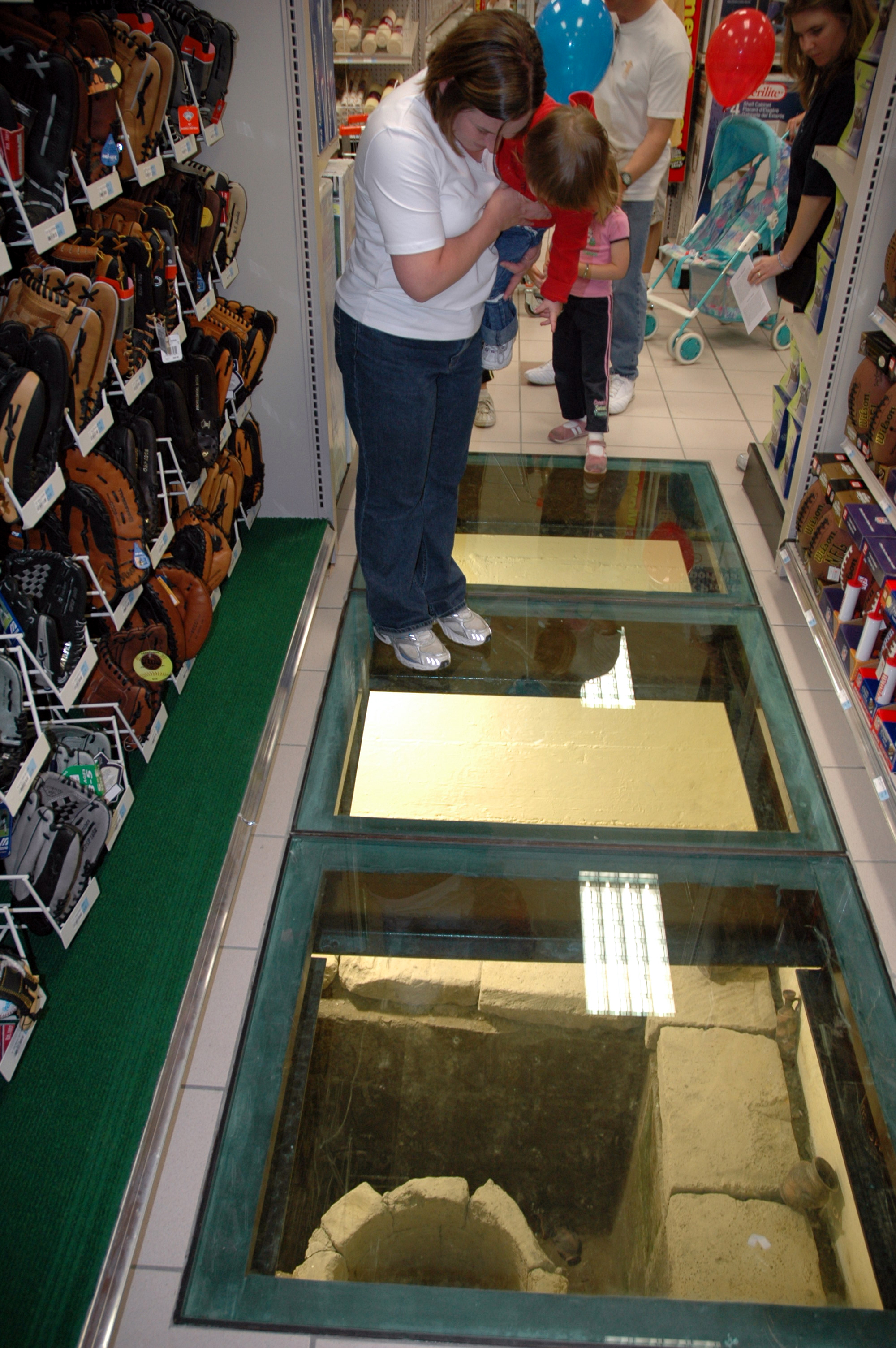 Naples, Italy (May 7, 2005) - A mother and daughter look at Roman Era findings that are visible through the floor in the new Navy Exchange (NEX), which recently opened at the Gricignano Support Site. The Roman Era artifacts, including block and wooden houses, a Roman road with consolidated chariot tracks, human remains, pottery, weapons and tools which date back from 500 B.C. to 30 B.C., were found during excavation before building commenced. U.S. Navy photo by Photographer's Mate 2nd Class Nathan L. Guimont (RELEASED)